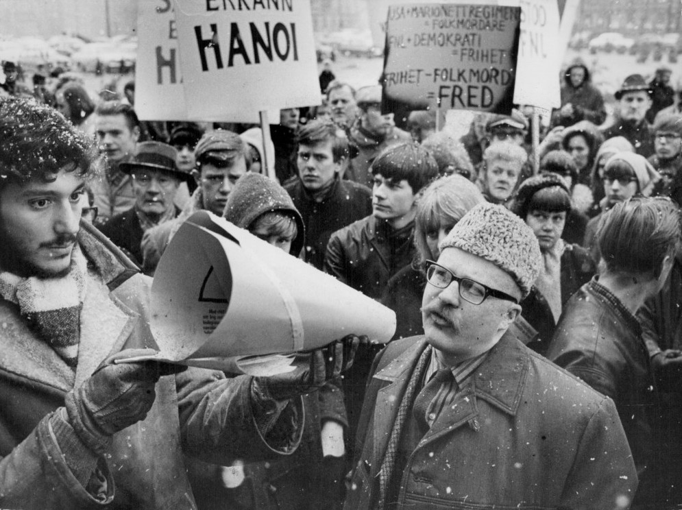 Jan Myrdal speaking at an anti-Vietnam War demonstration at Medborgarplatsen in Stockholm. Published in Svenska Dagbladet on 26 March 1966.